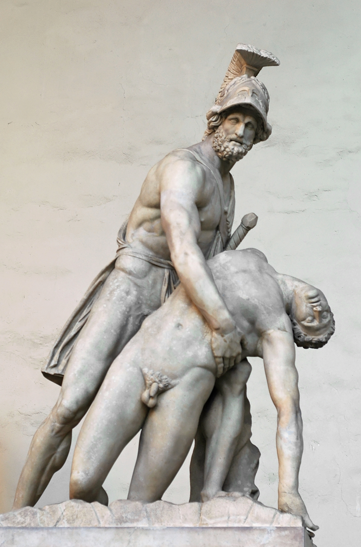 The so-called "Pasquino Group", perhaps Menelaus bearing the corpse of Patroclus. Marble, Roman copy of the Flavian Era after a Hellenistic original of the 3rd century BC, with modern restorations. Found in Rome; in the Medici collections in Florence, 1570; installed in the Loggia dei Lanzi since 1741.